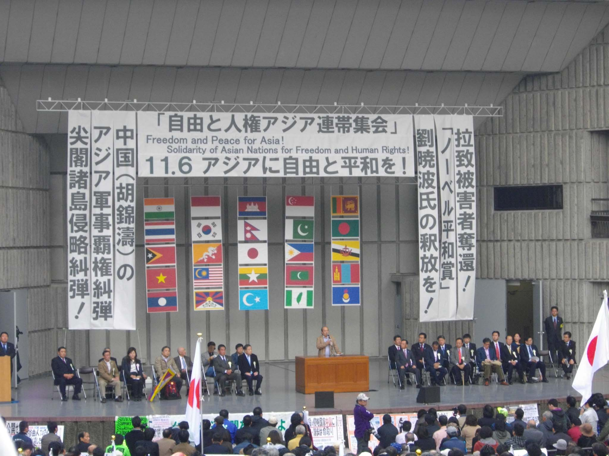 Anti-Chinese government rally on 6 November 2010 at Hibiya